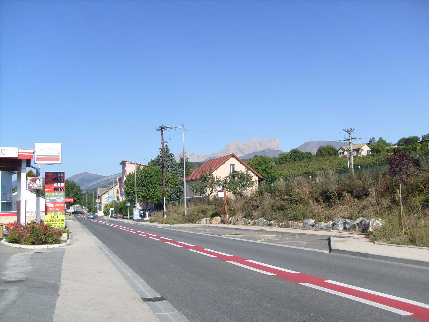 The main road D994 going through La Freissinouse (Hautes-Alpes, France)